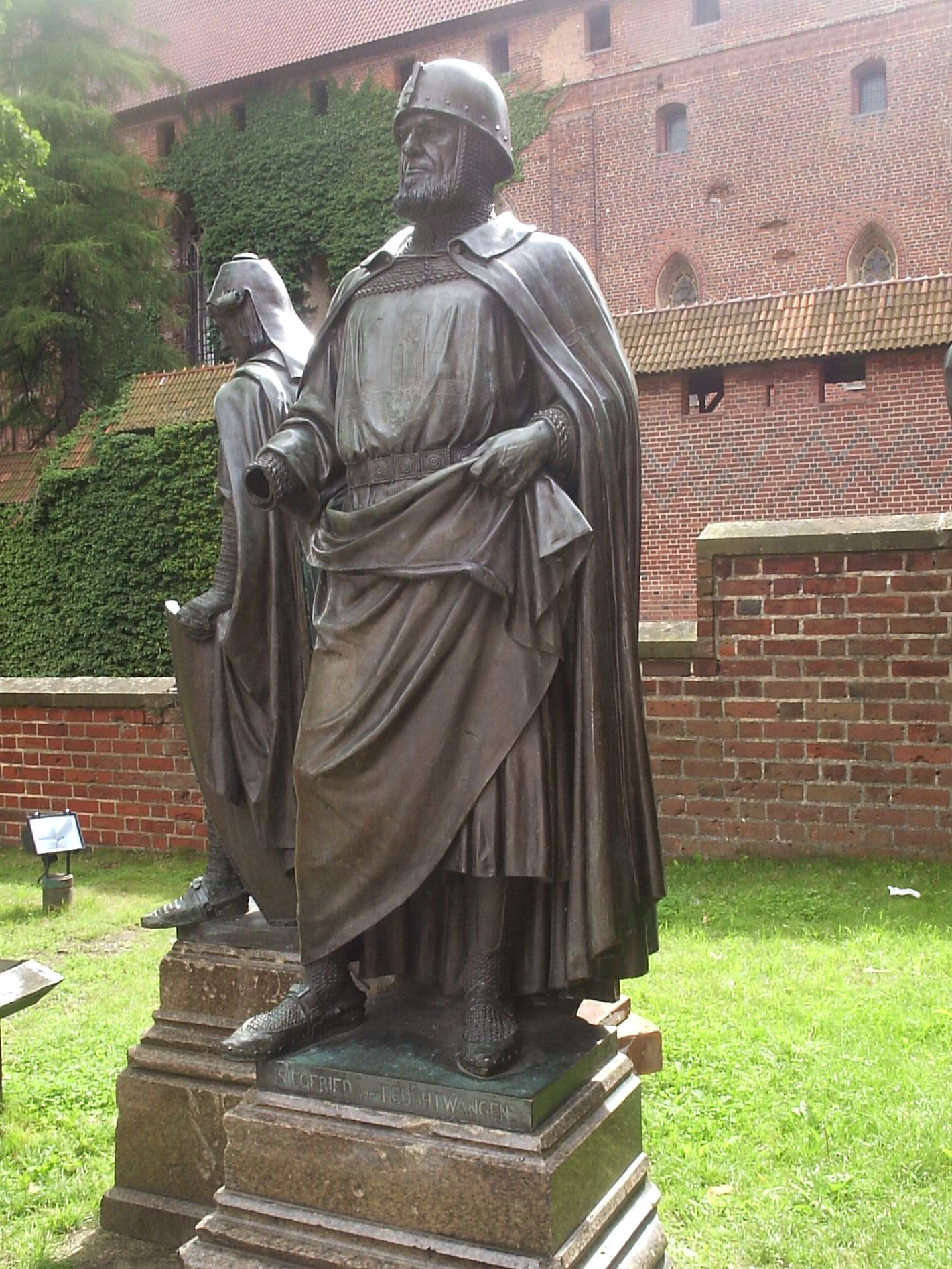 Statue of Siegfried von Feuchtwangen, 15th Grand Master of the Teutonic Order, Castle of Malbork, Poland.